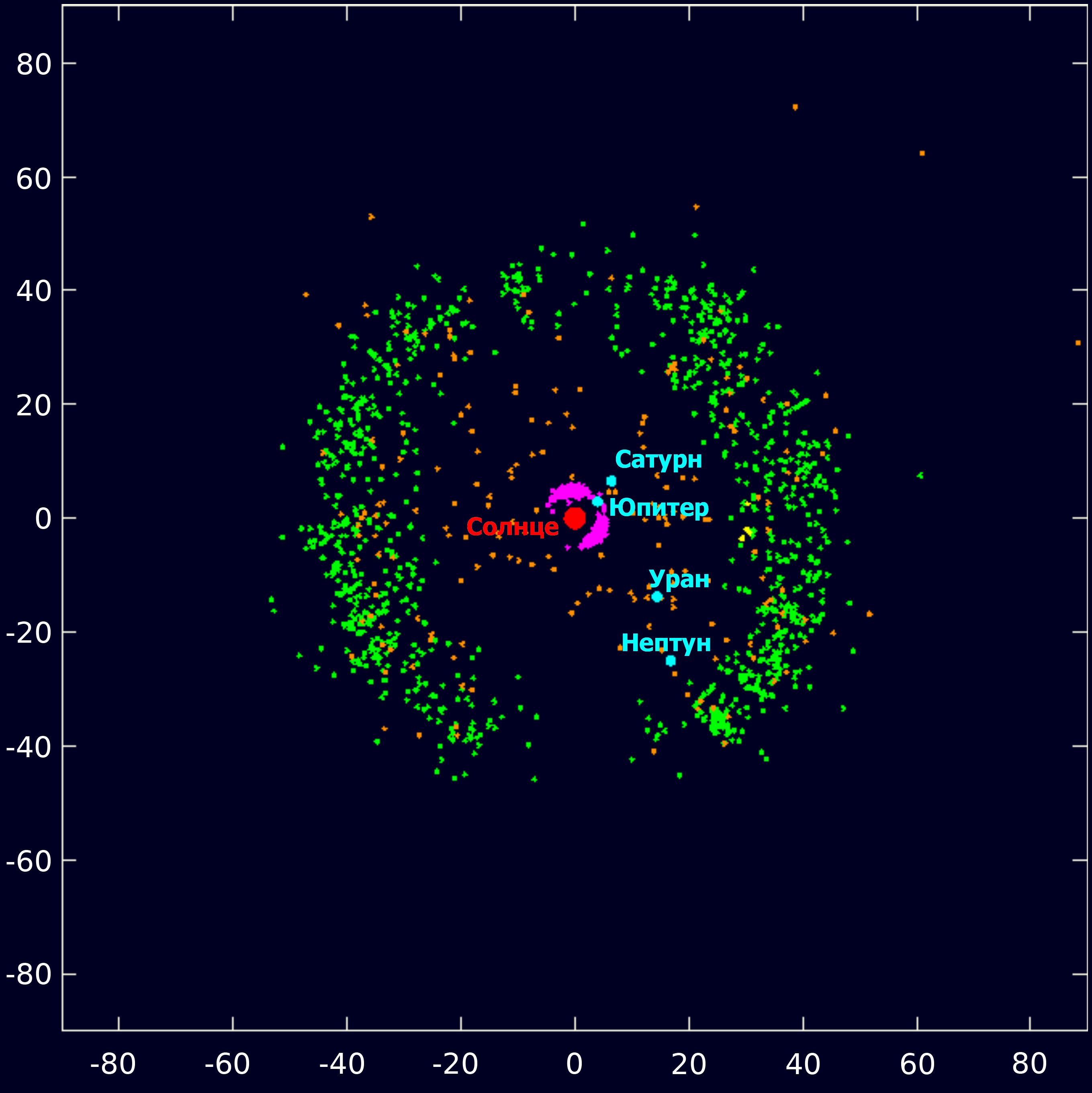 Image:Outersolarsystem objectpositions labels comp.png translated into Russian.